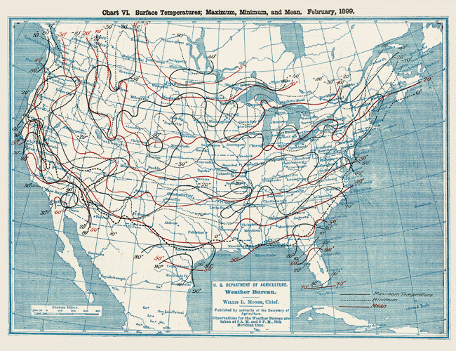 "This map shows the maximum (solid black lines), minimum (dashed black lines), and average (solid red lines) temperatures across the contiguous United States in February 1899."